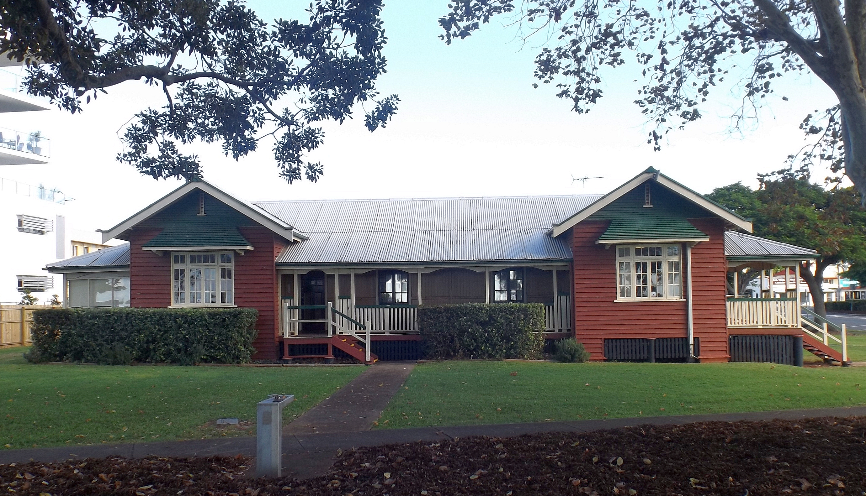 Photo of Old Cleveland Police Station at Cleveland, City of Redland, Queensland, Australia.